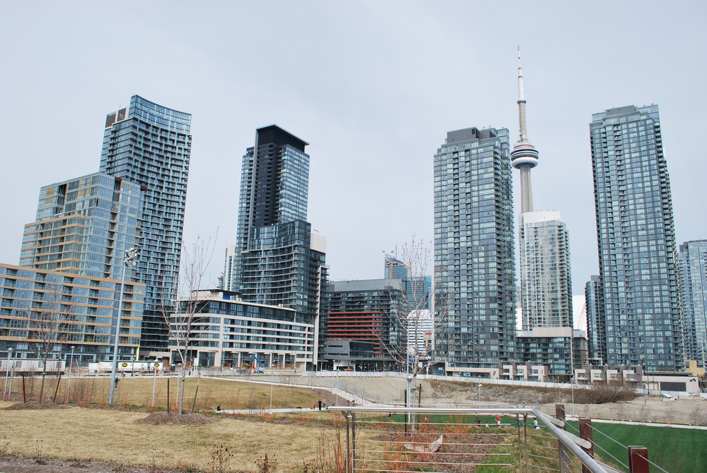 View of CityPlace, Toronto from Canoe Landing Park